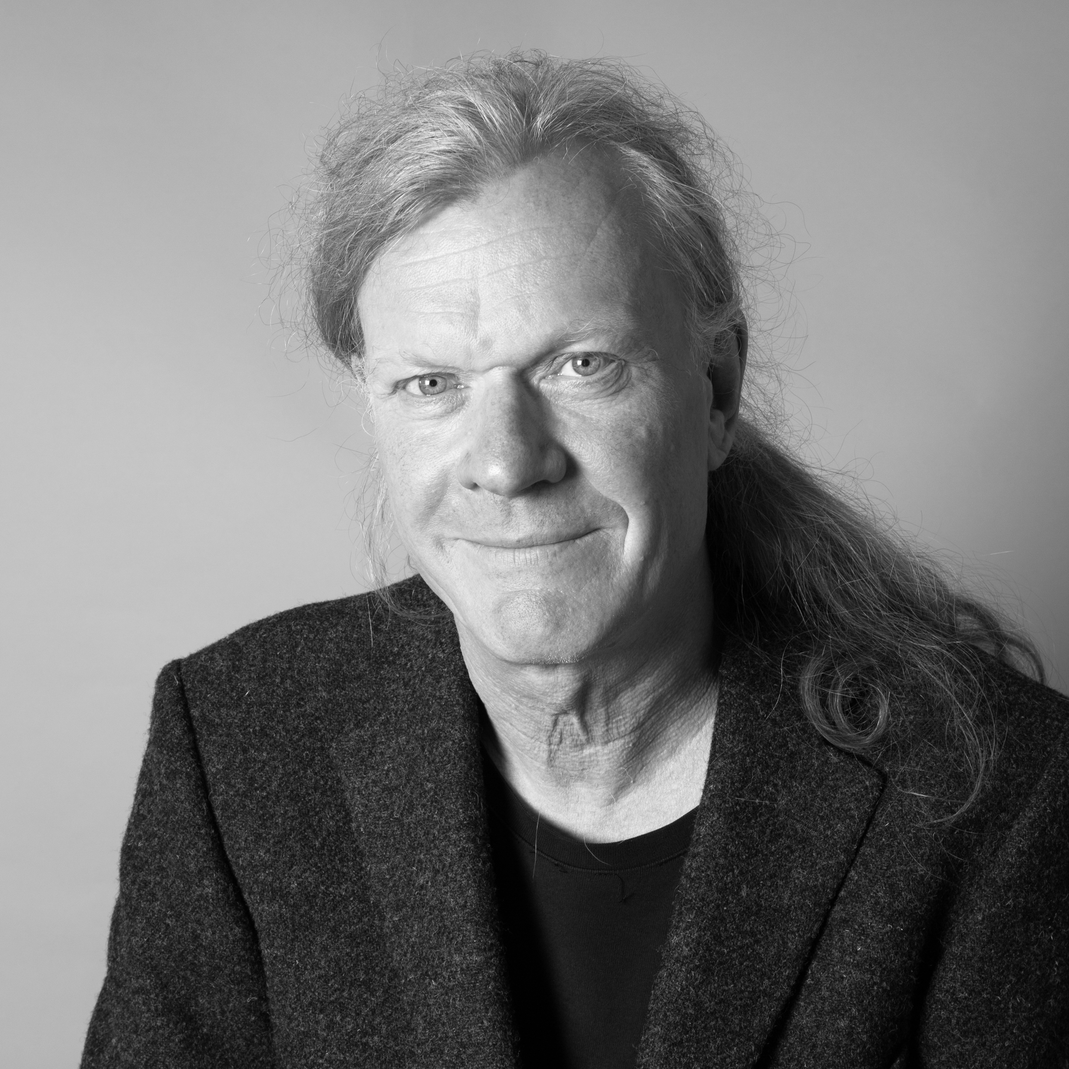 Jan Saffe, member of the Bürgerschaft of Bremen